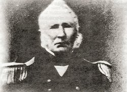 Personal image of Charles Boarman